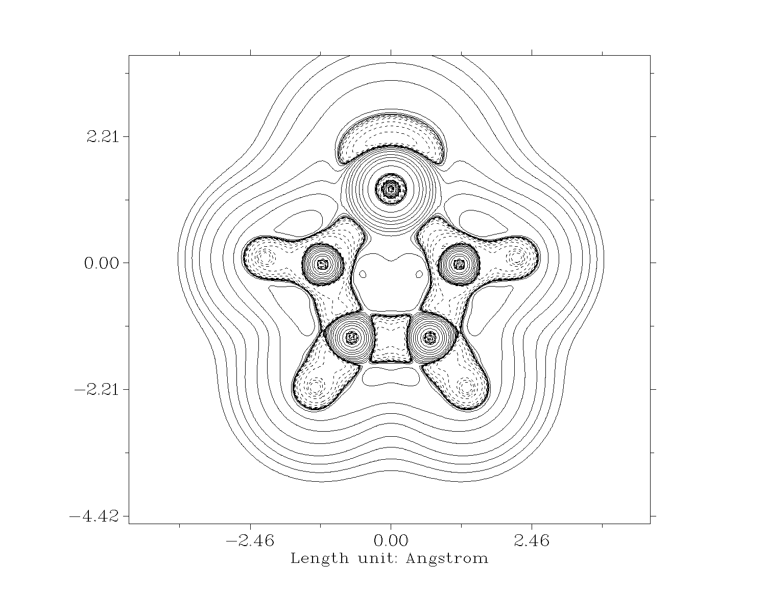 Contour map of unsaturated NHSI by AIM analysis reproduced based on image and calculations in Organometallics 1998, 5807